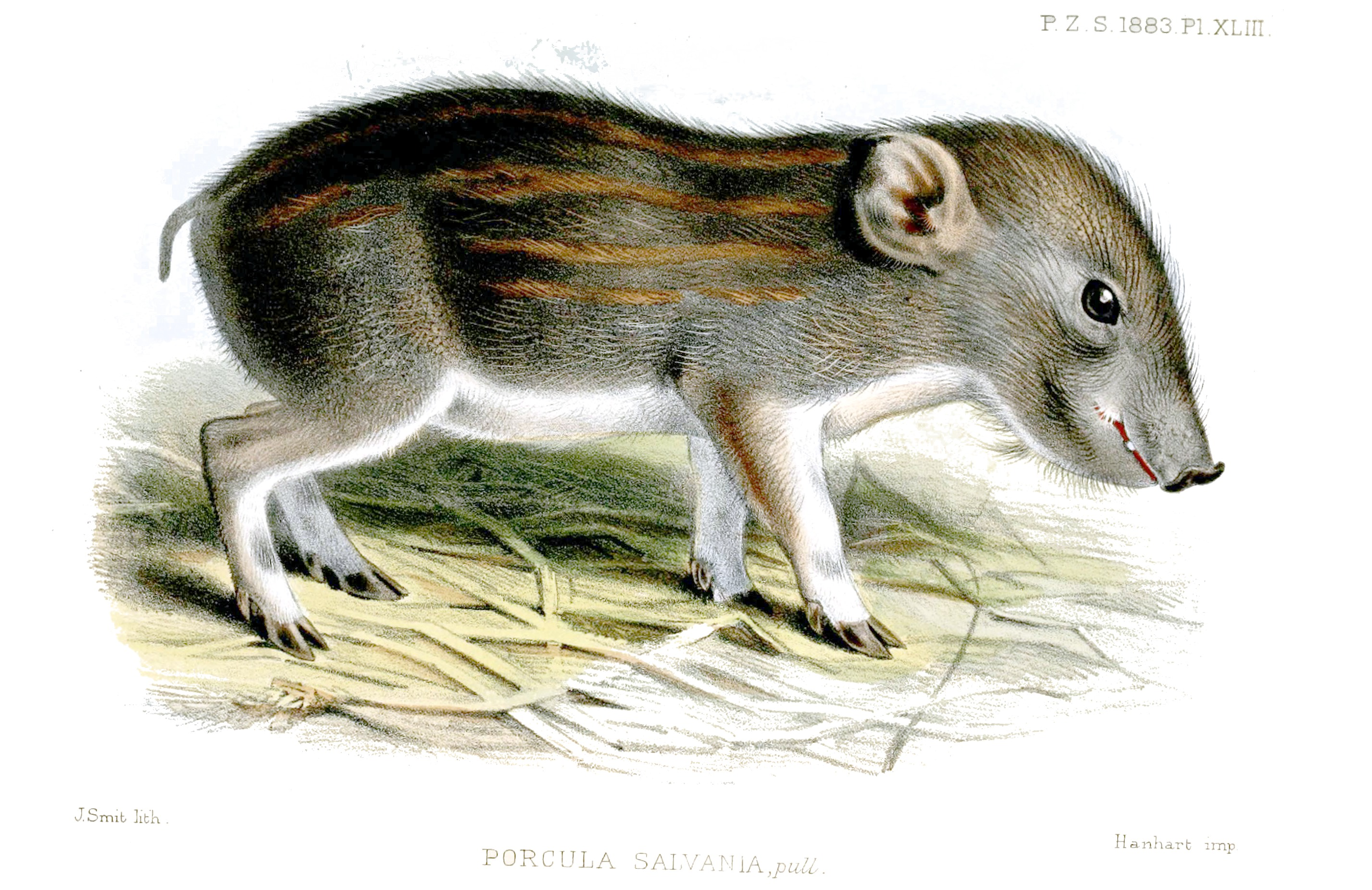 Young Porcula salvania Syn. Sus salvanius.